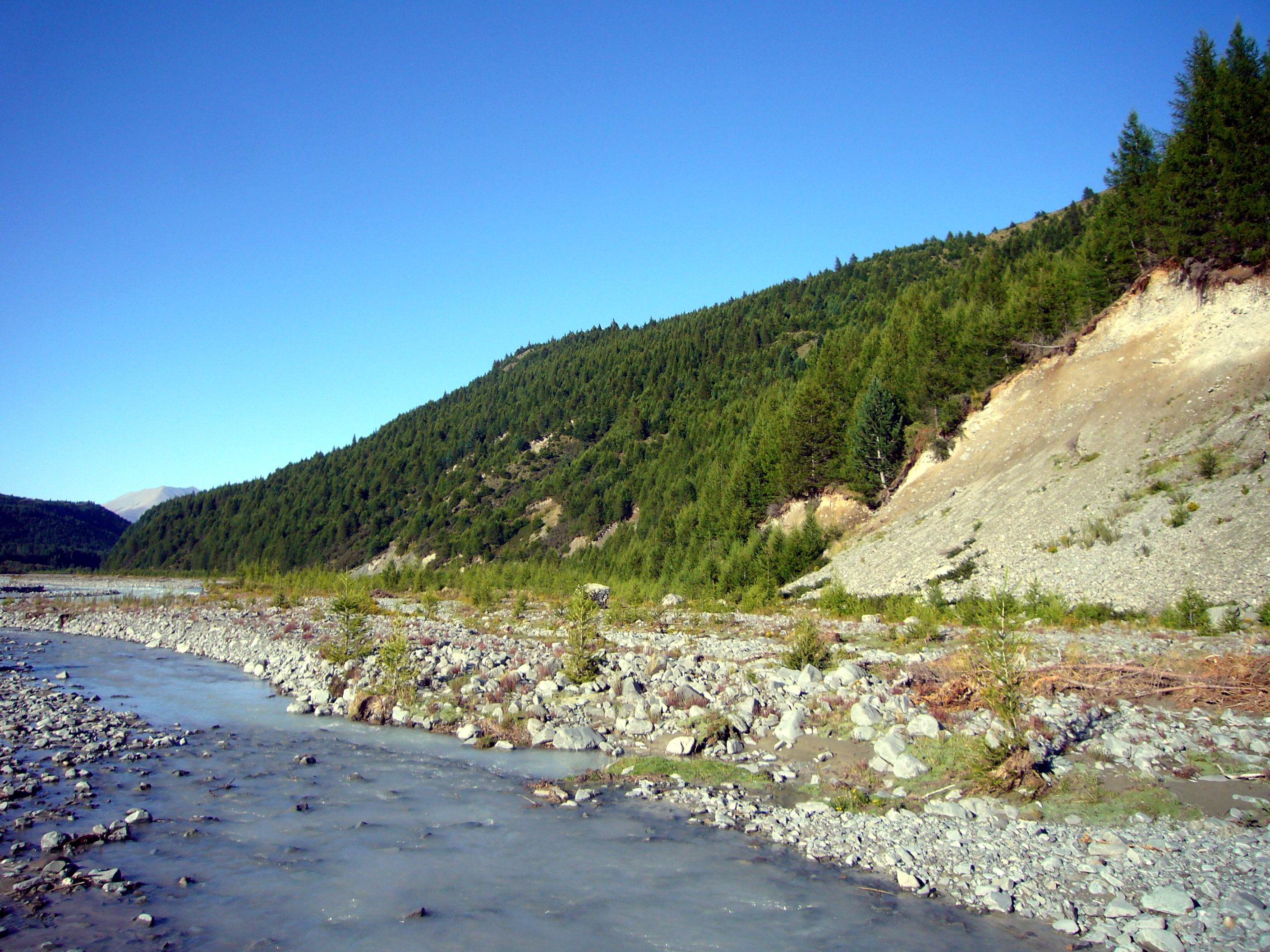 Wilding conifers (predominantly European Larch Larix decidua) in the Jollie River valley in Canterbury, New Zealand. Note that the river has a colouration due to the presence of glacial rock flour. The dead trees on the rocky river terrace have been washed down due to flooding.